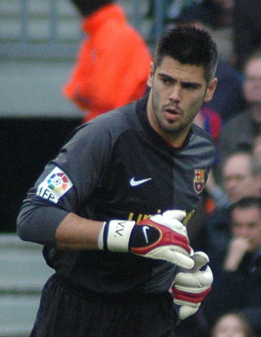 Víctor Valdés, FC Barcelona's goalkeeper, during the match FC Barcelona-RCD Mallorca.